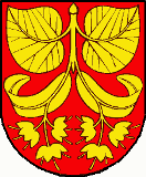 Blazon of Eschlikon, Canton of Thurgau, SwitzerlandEsperanto: Blazono de Eschlikon, Kantono Turgovio, Svislando